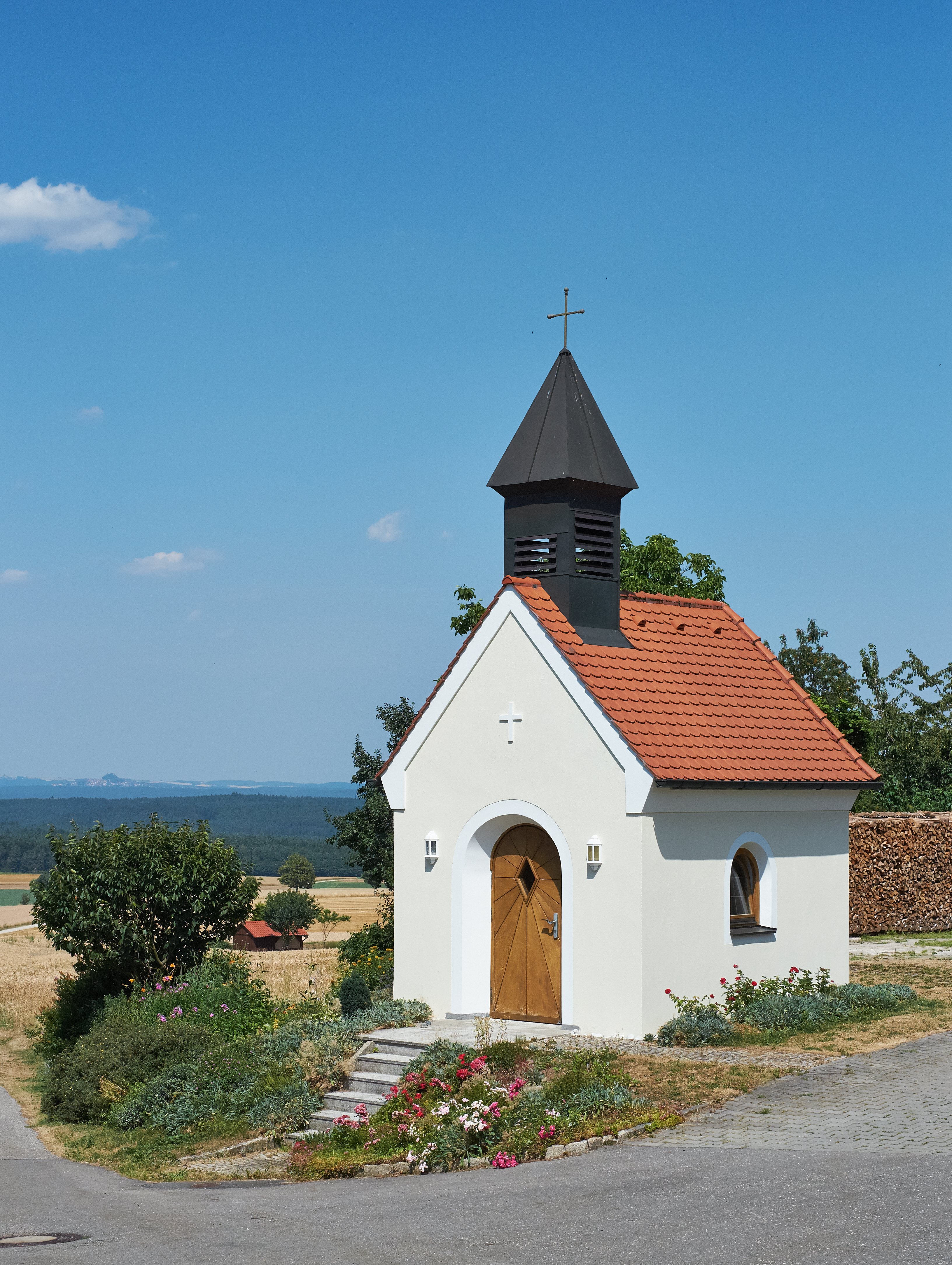 Chapel Rödlas, Hirschau-Rödlas, county Amberg-Sulzbach, Bavaria, Germany